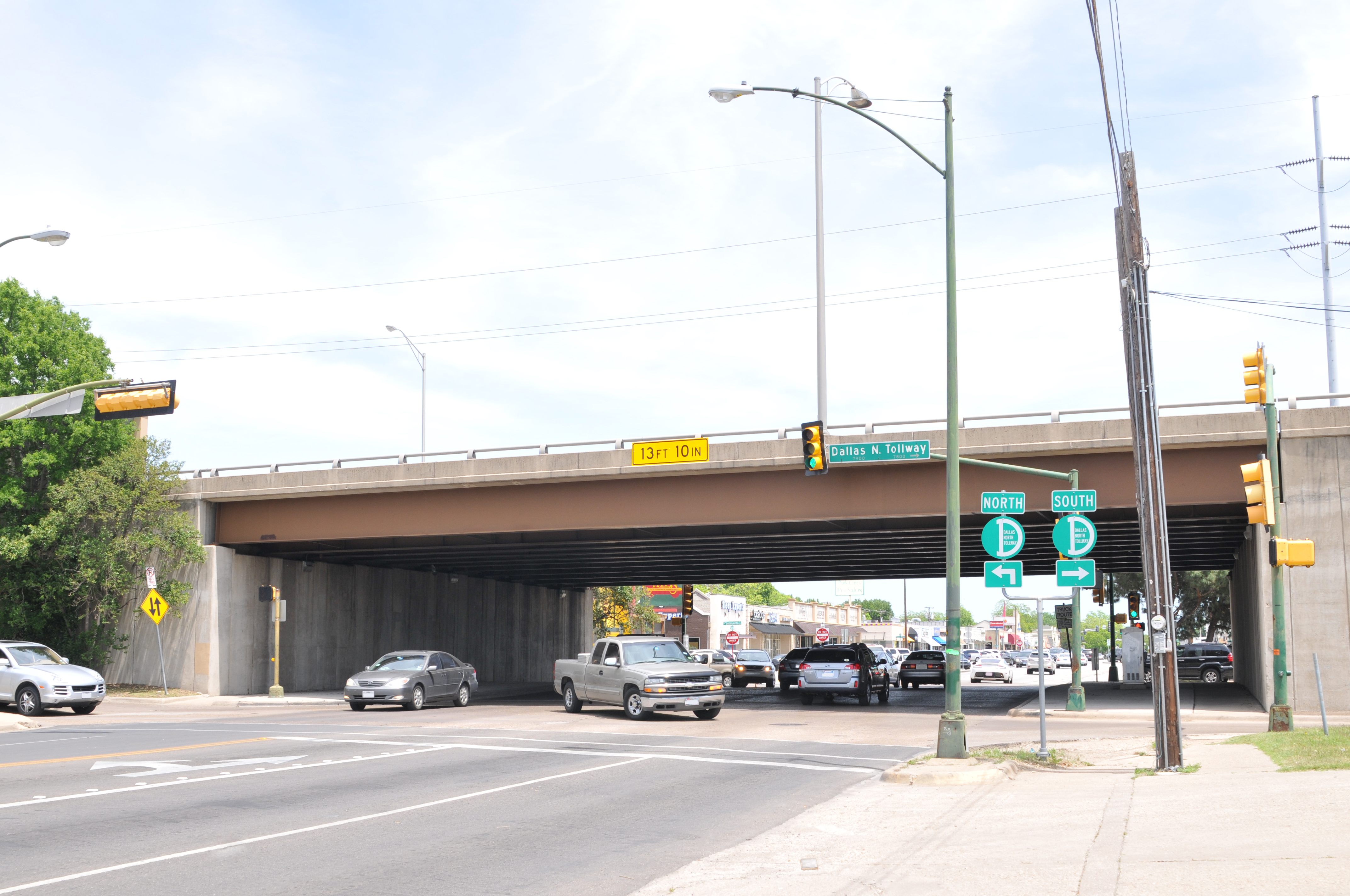 Dallas North Tollway passing over Lovers Lane in Dallas, Texas